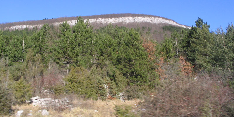 Mount Ćićarija, Istria, Croatia - view at the hill above Vele Mune-Vodice road. Slovenia is just behind the hill.